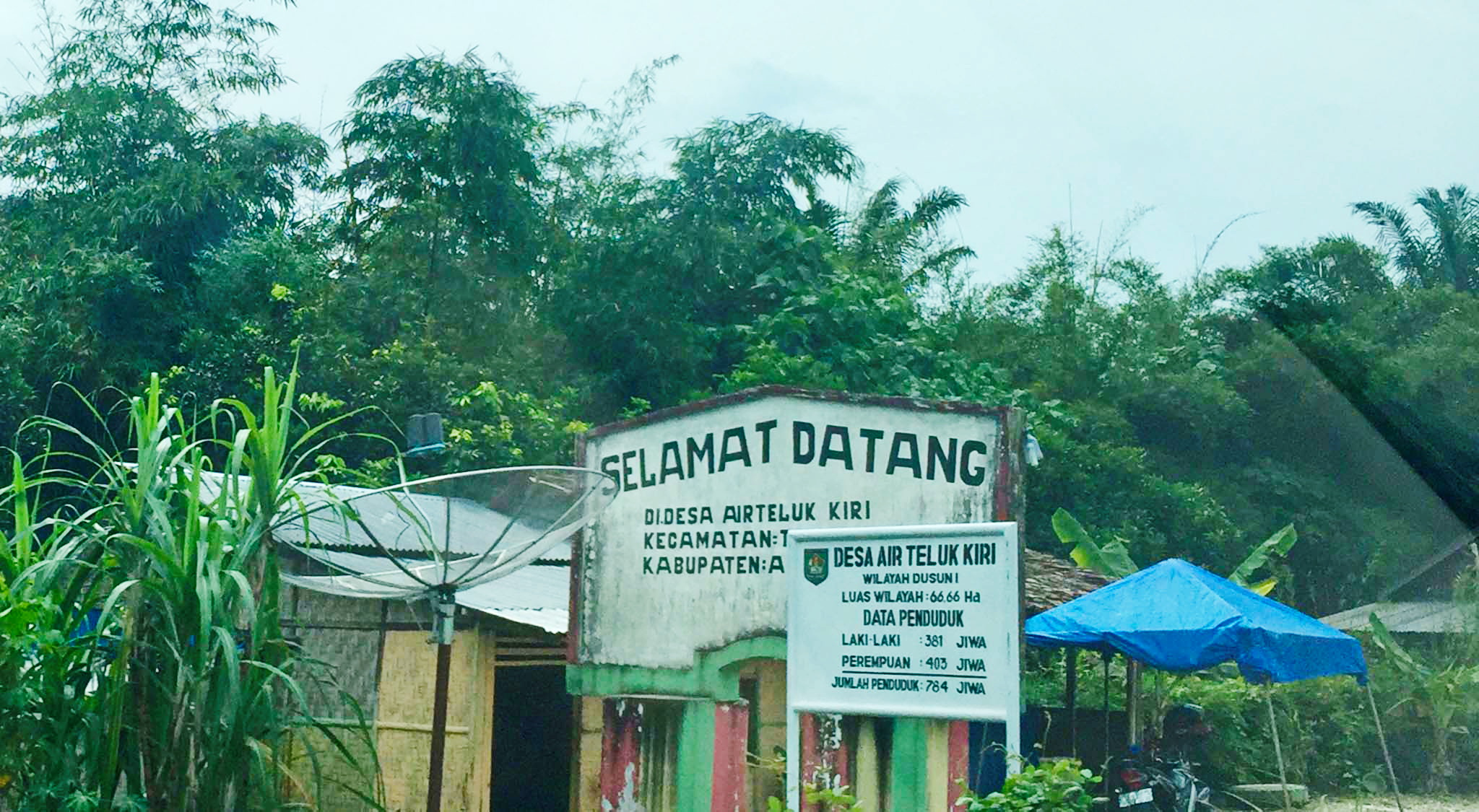 welcome gate to Air Teluk Kiri, Teluk Dalam, Asahan